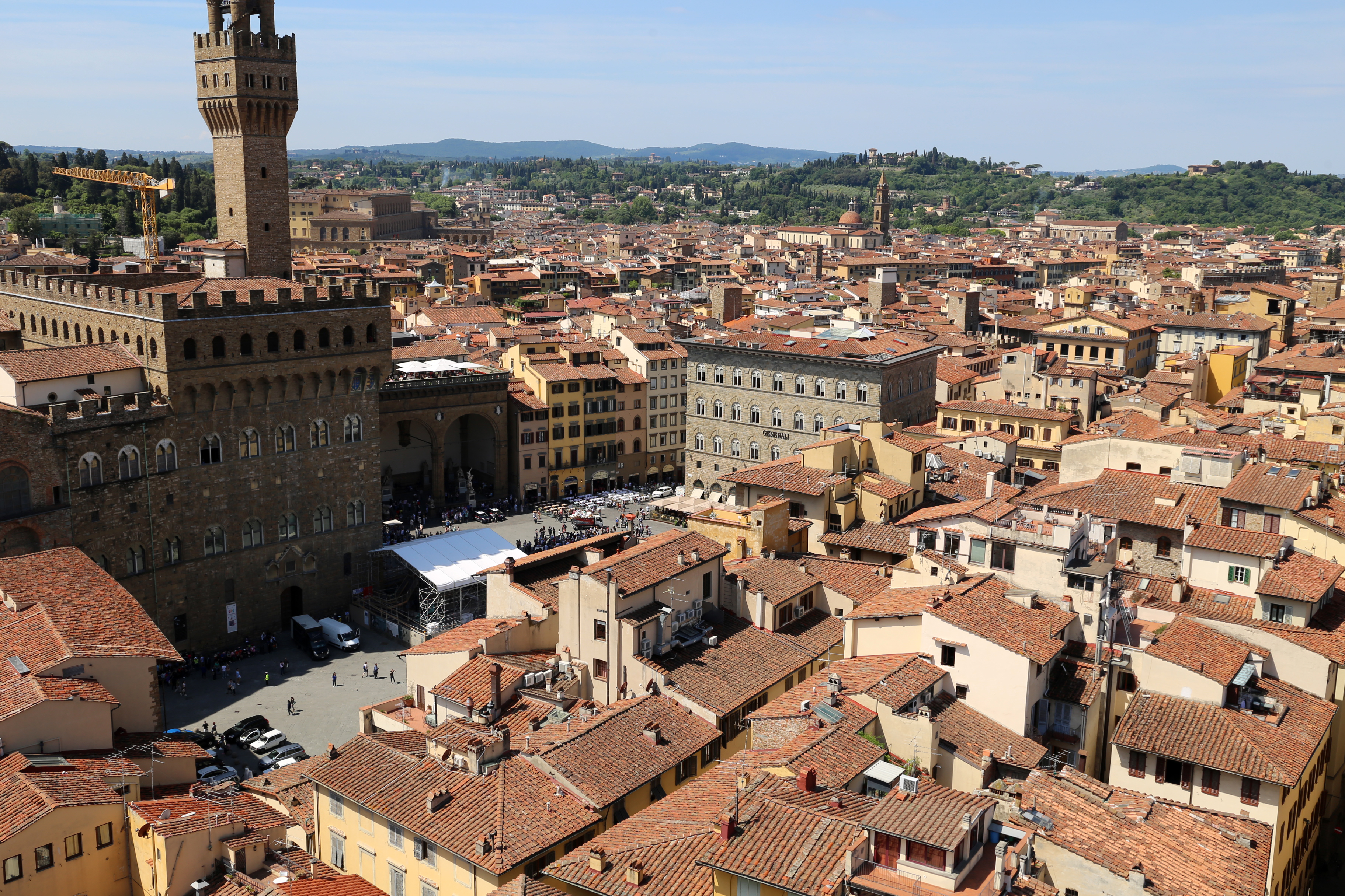 Badia fiorentina - Belltower - View from